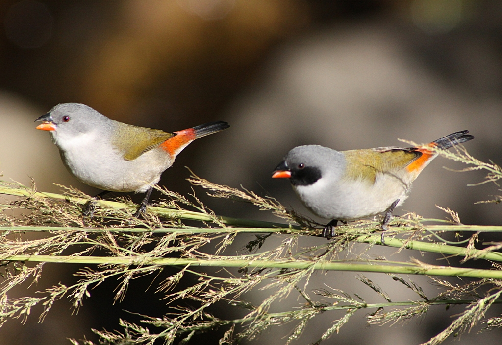 Swee waxbill, Estrilda melanotis